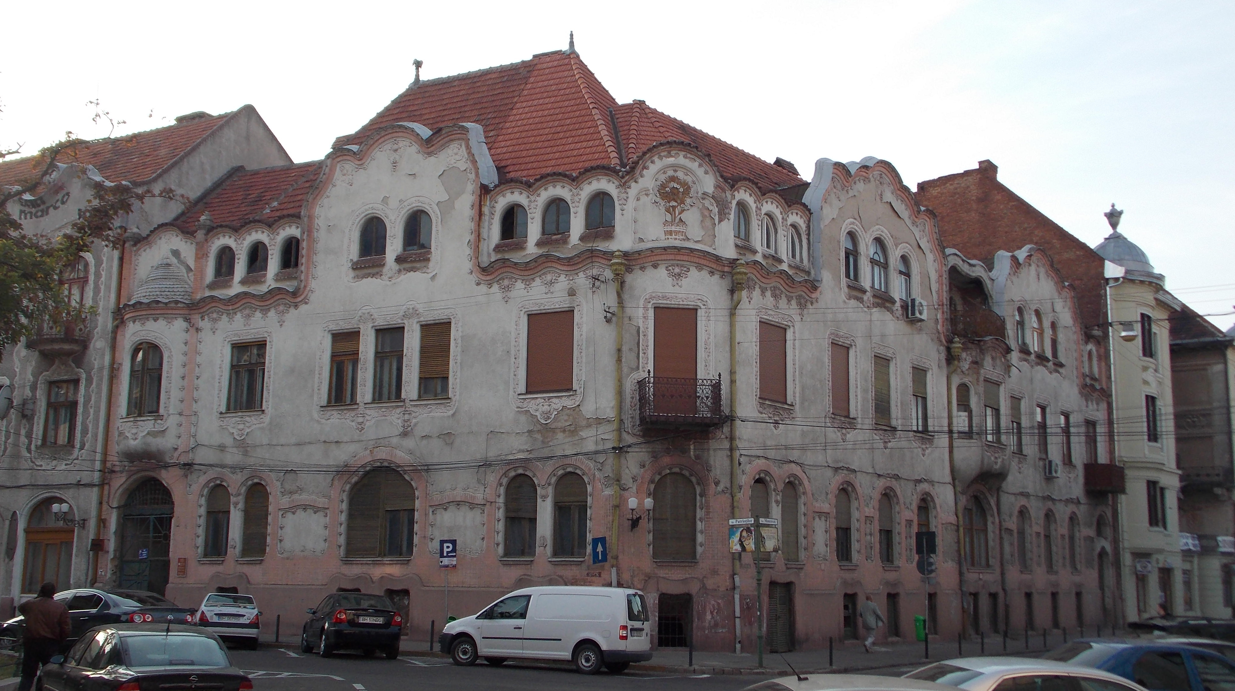 "Adorjan" House I